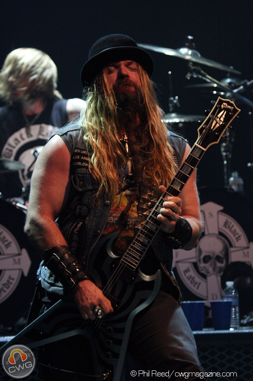 Zakk Wylde live at the Wiltern.